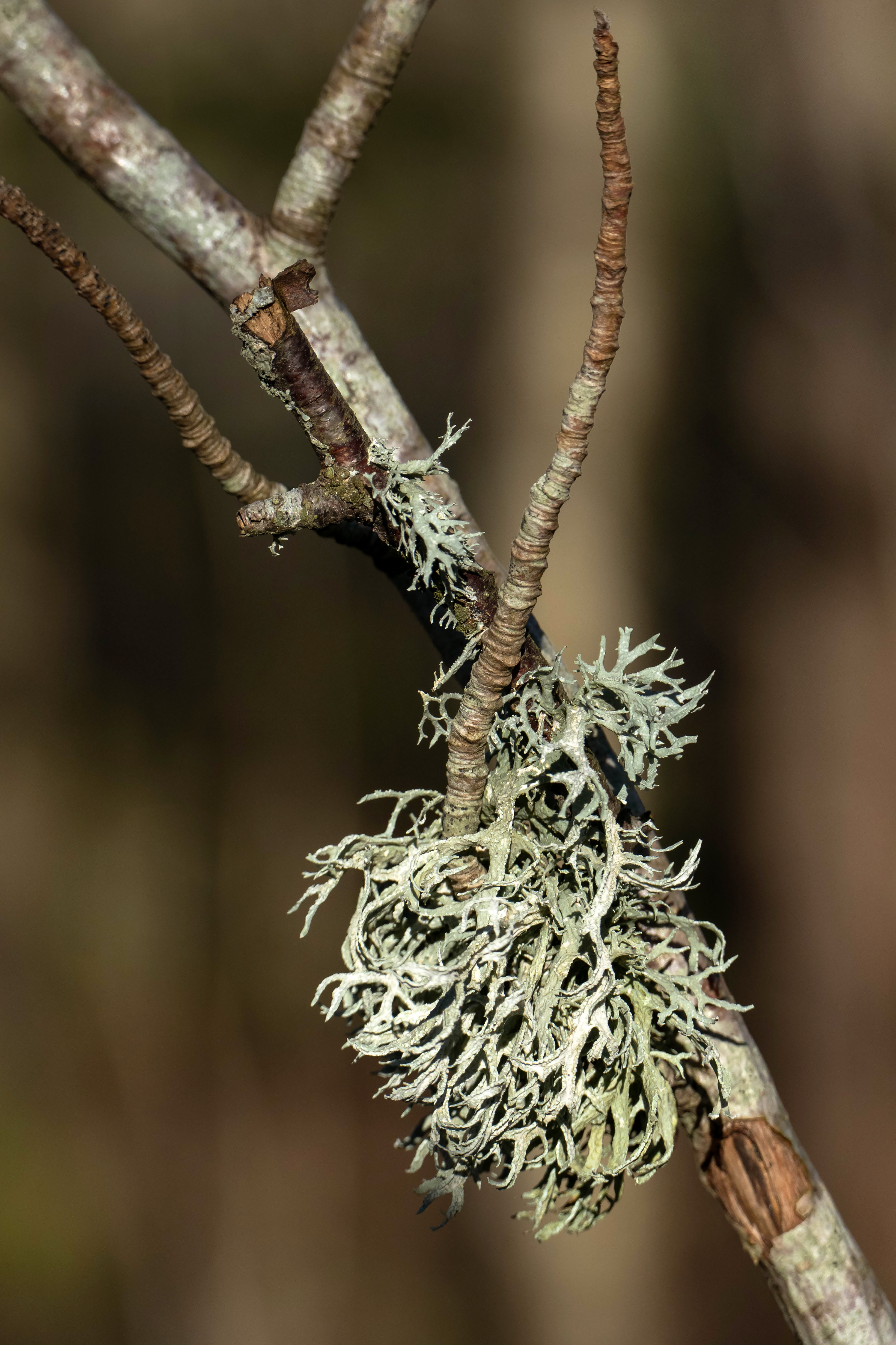 Oakmoss (Evernia prunastri) on a tree branch at Myrstigen, Brastad, Lysekil Municipality, Sweden.